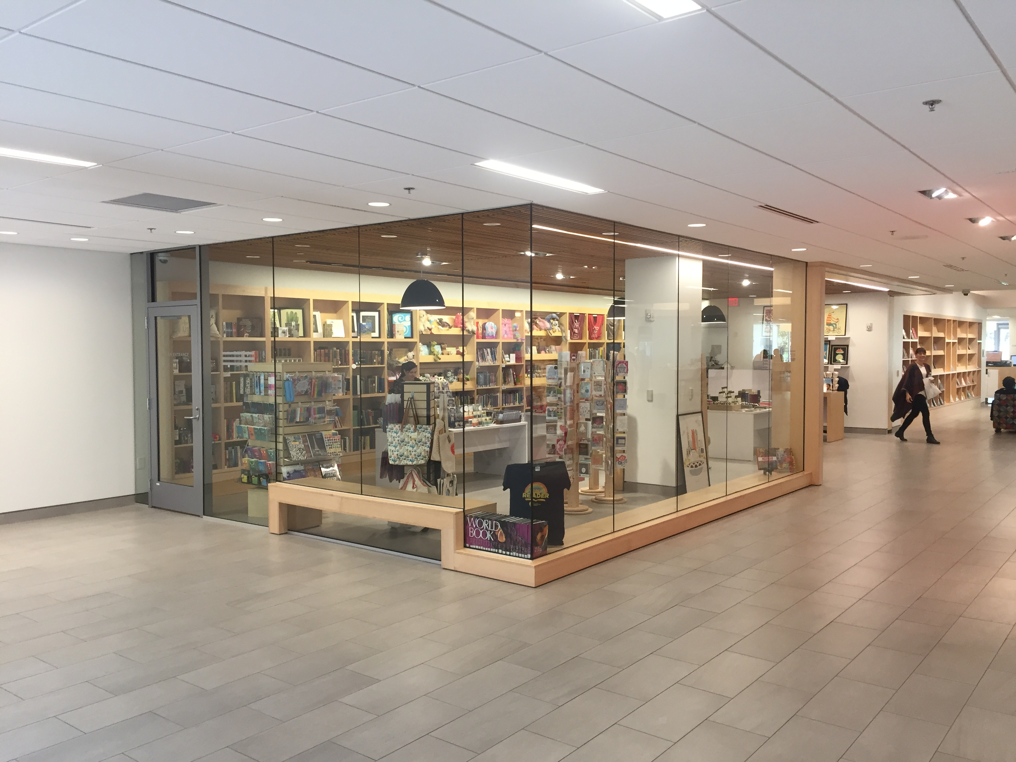 Gift shop at Columbus Metropolitan Library during WikiConference North America 2018